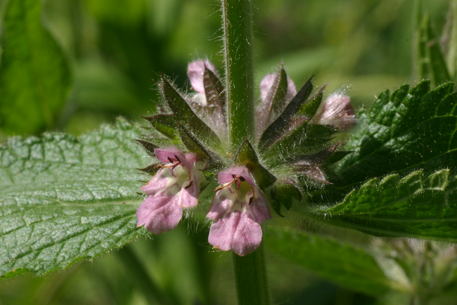 Stachys alpina